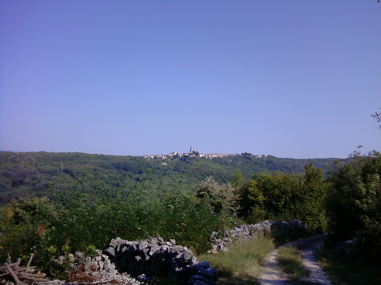 View on Dobrinj ( municipality in Croatia, on island Krk ) from west.